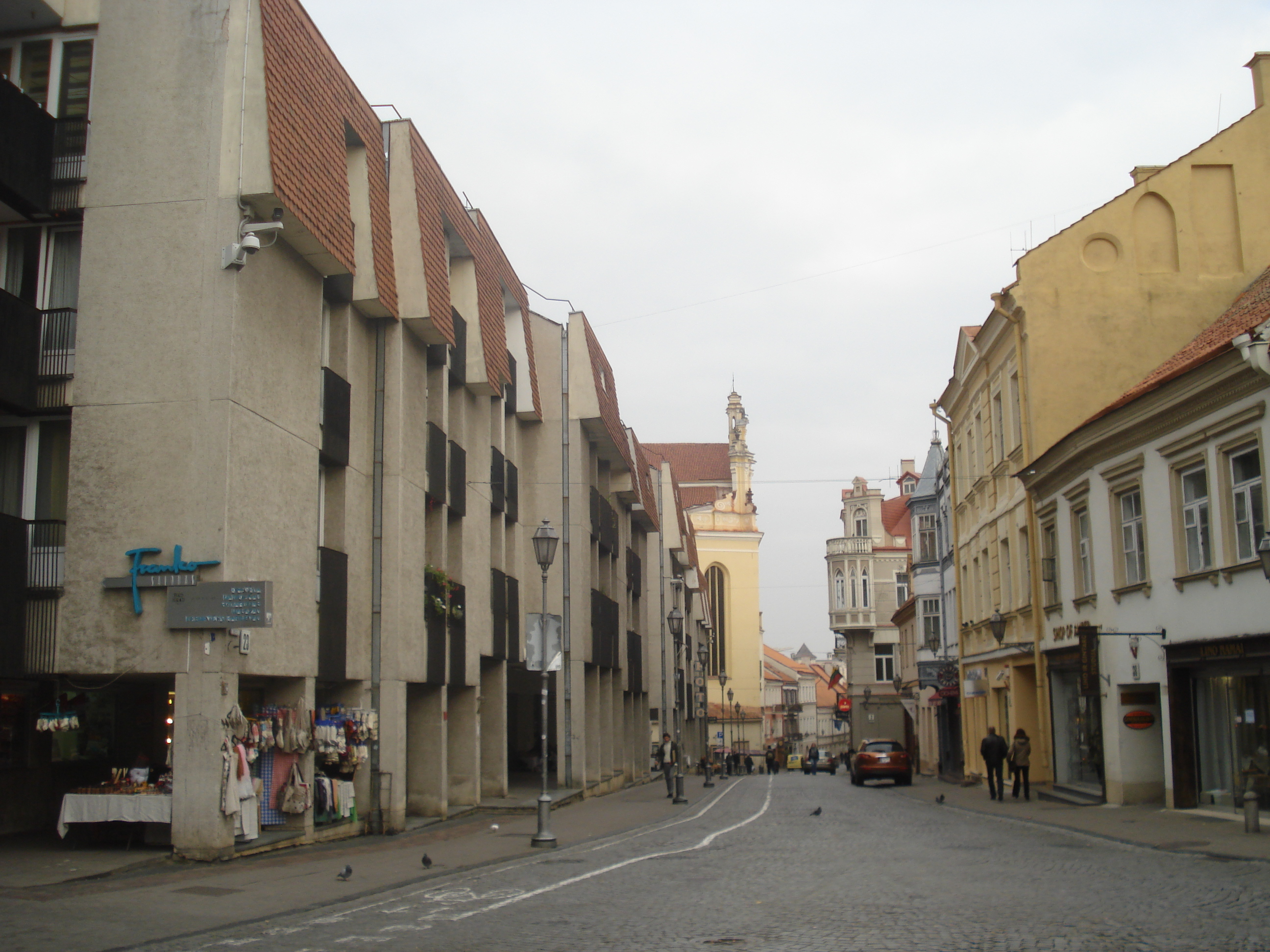 Pilies street at the end: Pilies g. 23 (built 1975) from left, Pilies g. 38 (former bookshop of Syrkin) from right